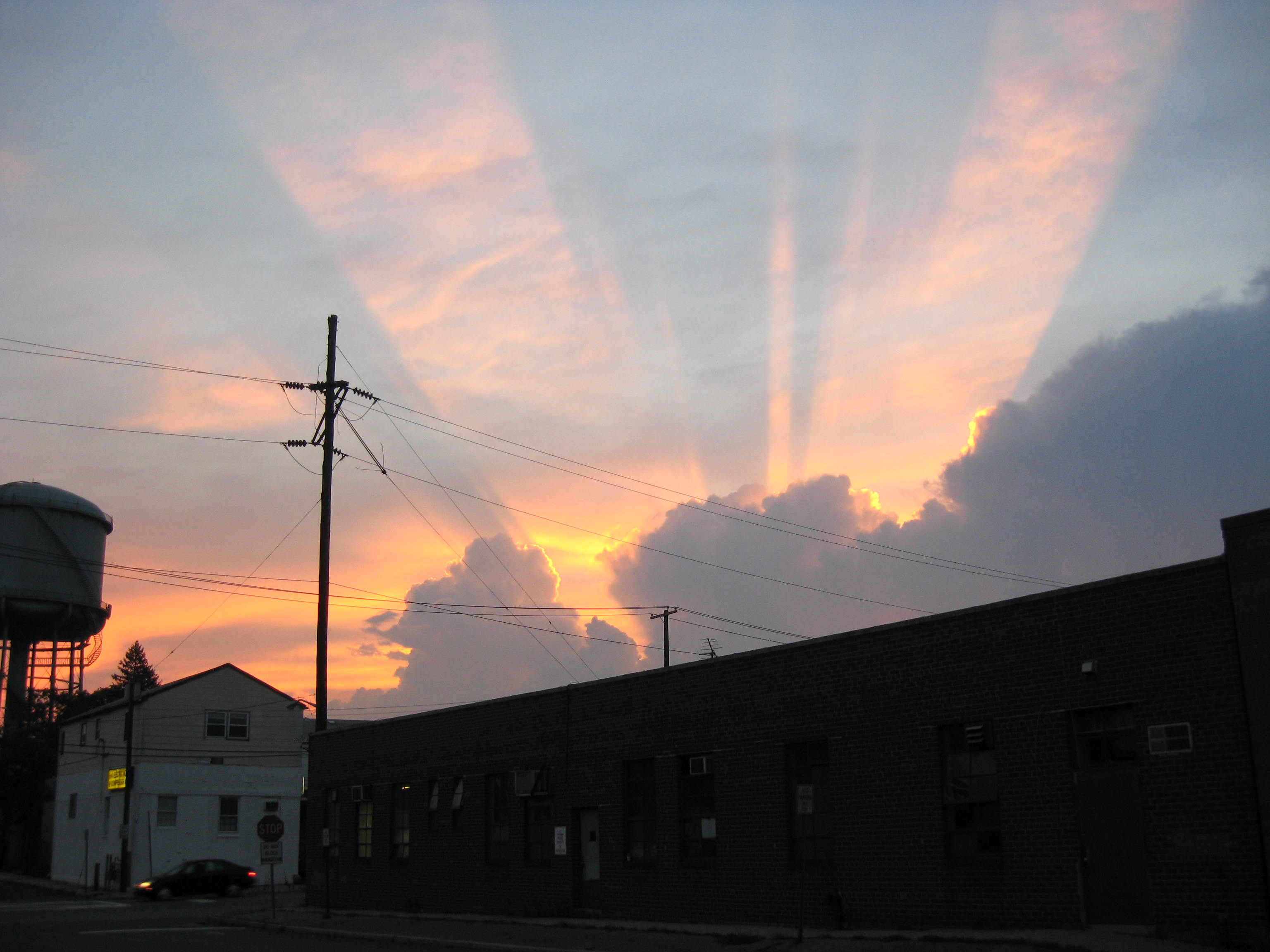 Unretouched photo of sunset with natural sun rays, from outside the fence line of the north side of the Main Line (Long Island Rail Road), in New Hyde Park, a couple blocks west of New Hyde Park station.